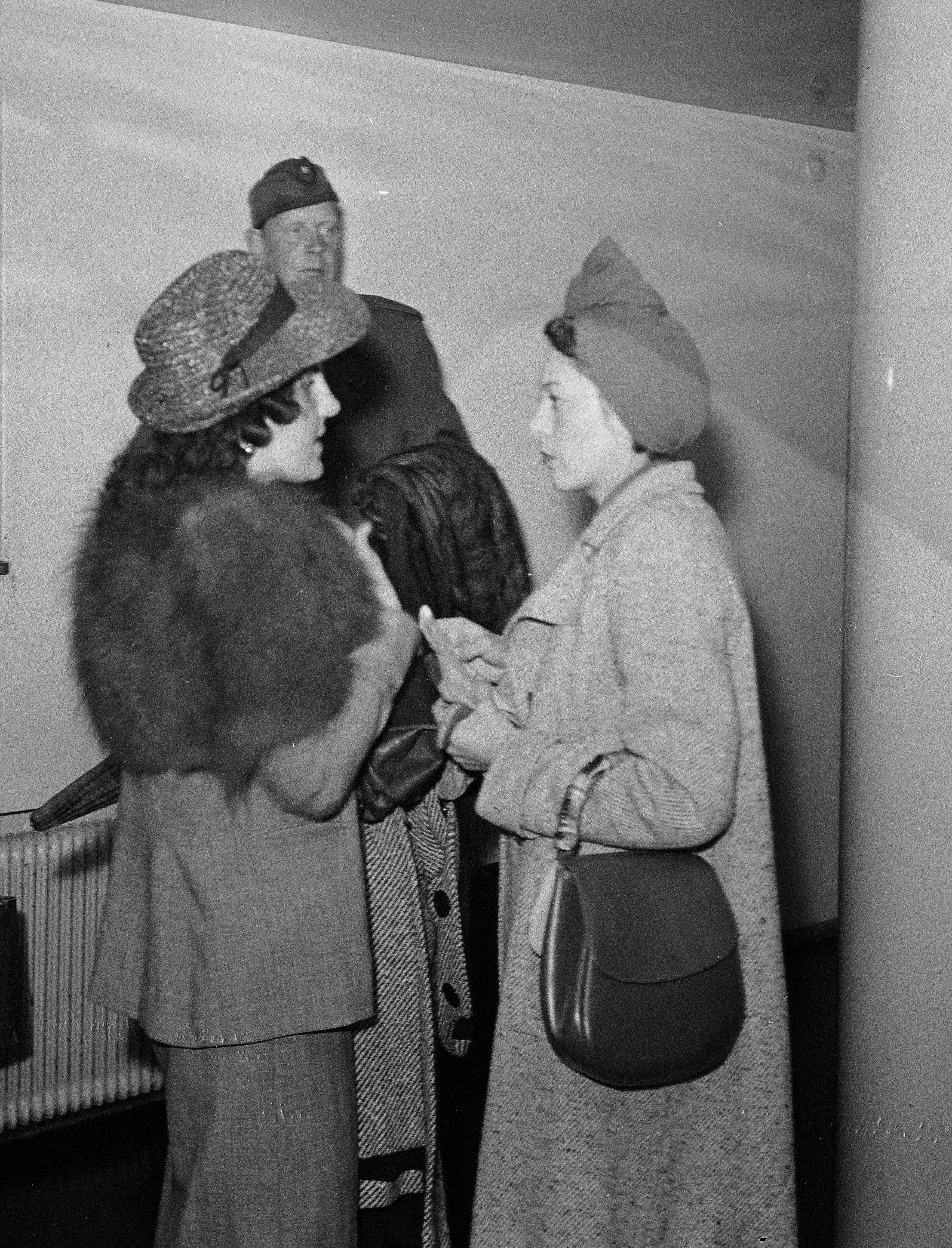 Photograph of the German actor Lizzi Waldmüller and the Finnish vocalist Liisa Linko (1917–2017) discussing at Malmi airport, Helsinki.